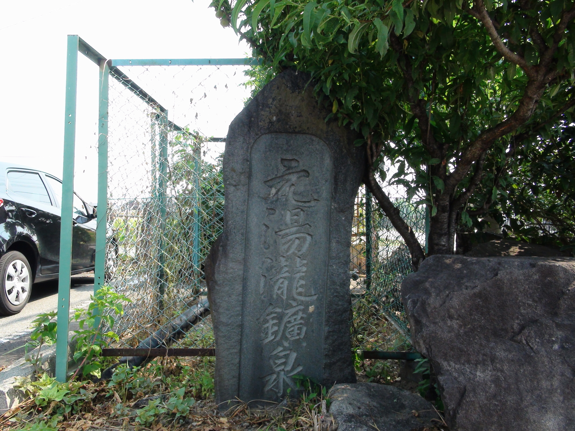 Hinode Kasugai Yamanashi Hot spring water source monument